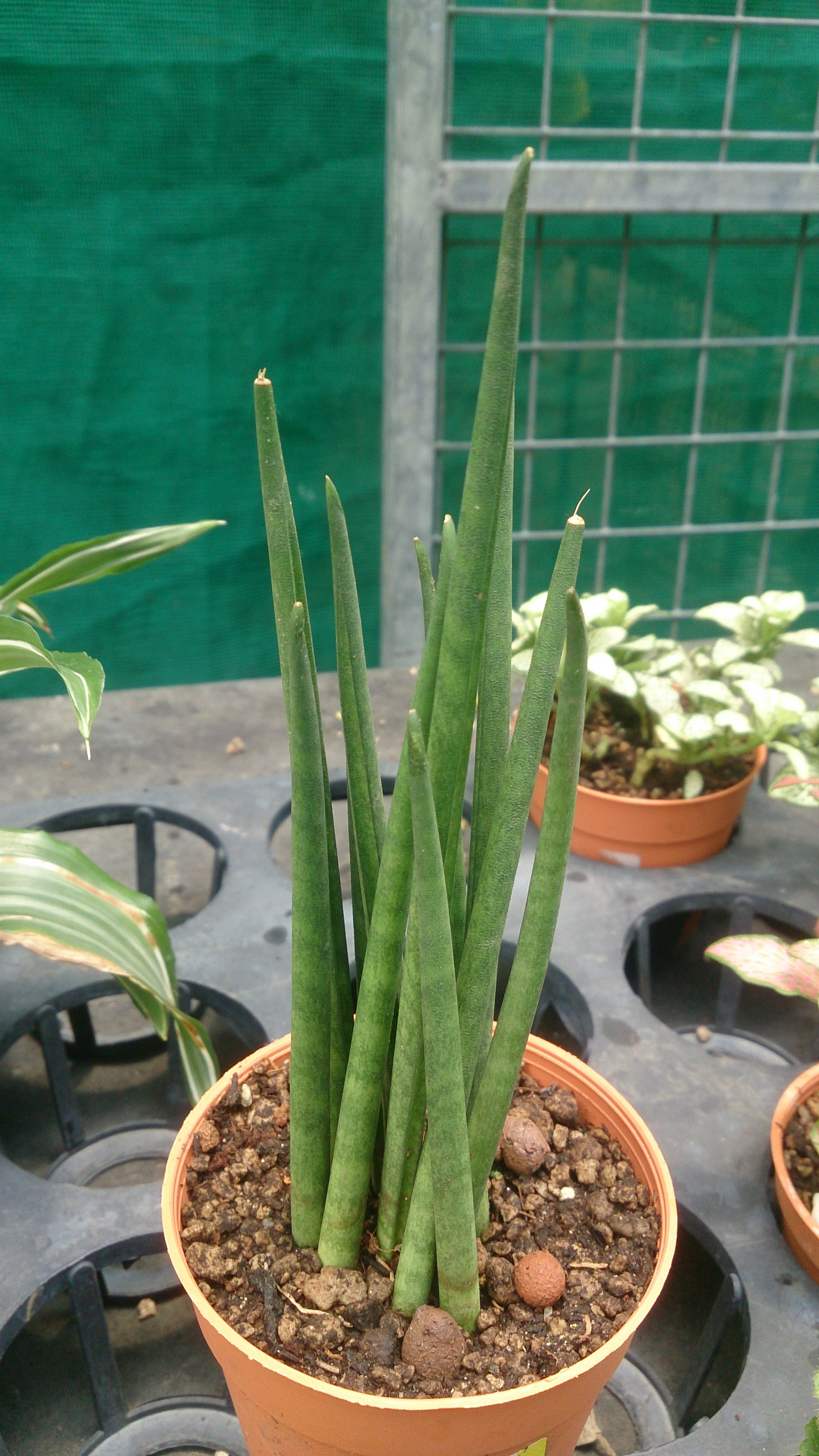 Sansevieria bacularis